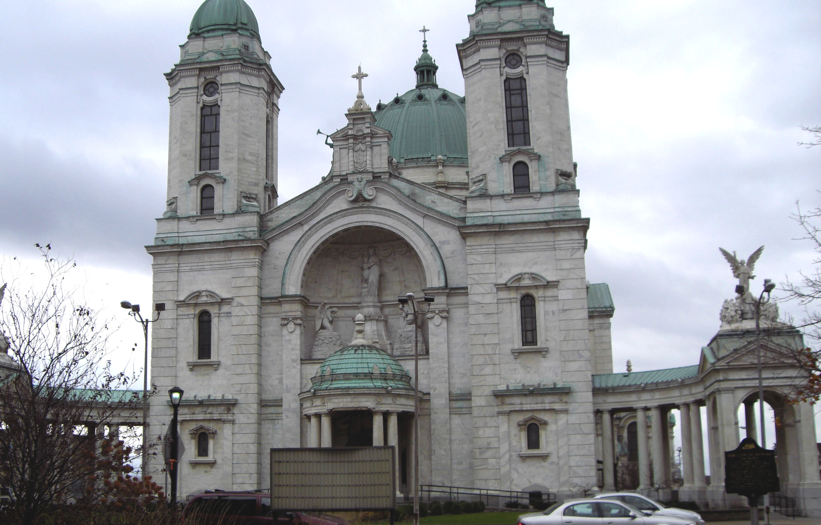 The outside exterior of Our Lady of Victory Basilica in Lackawanna, New York.